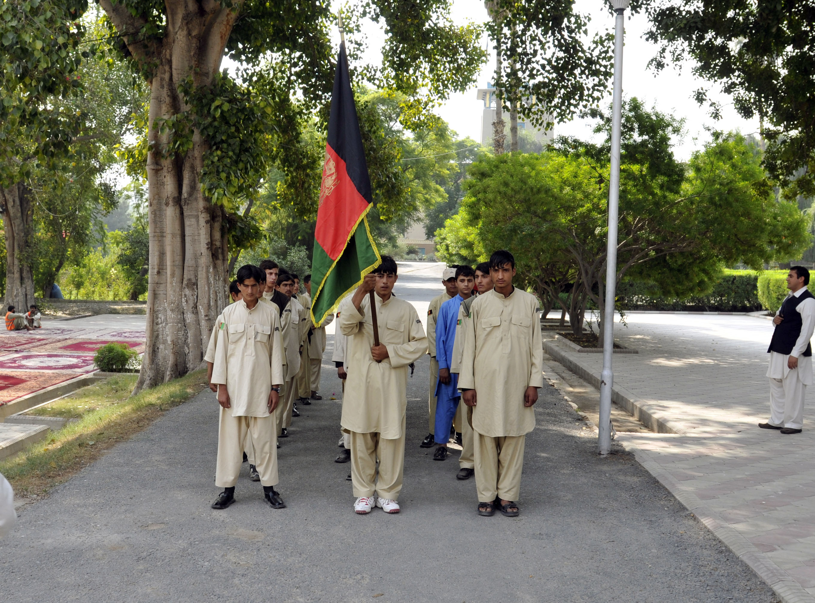 The Nangarhar Cub Scouts march toward the governor's palace before a transfer of responsibility of the Nangarhar Scout program ceremony began Oct. 12. The responsibility was handed over from the Nangarhar Provincial Reconstruction Team to the ministry of education and Afghan Strategic Research and Services organization. (Photo by U.S. Army Command Sgt. Maj. Scott Schroeder, Combined Joint Task Force-101 command sergeant major) (Photo ID: 328799)